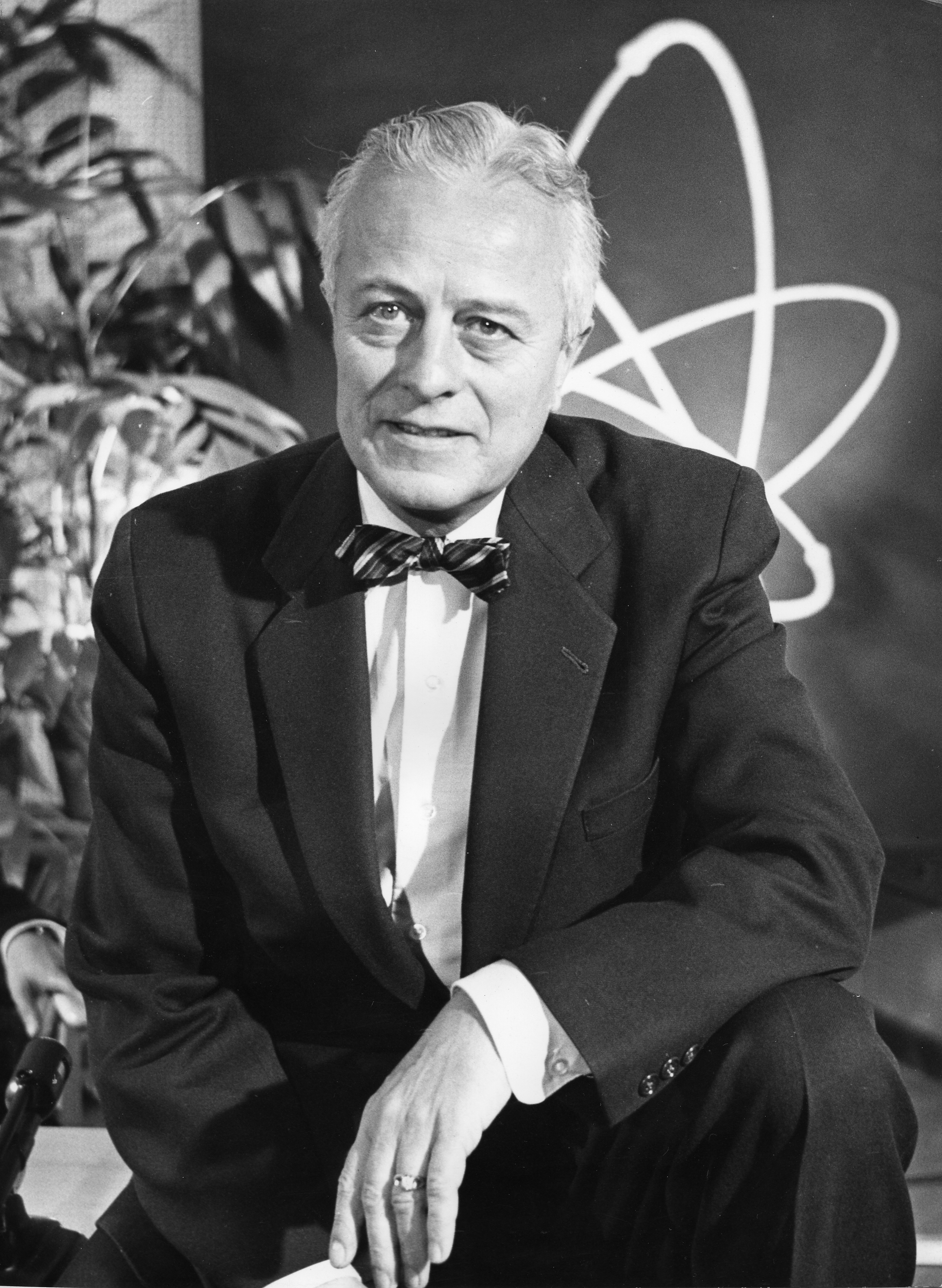 Mr. Sterling Cole, First Director General of the International Atomic Energy Agency. (IAEA, Vienna, Austria, October 4, 1958) Copyright: IAEA Imagebank Photo Credit: IAEA